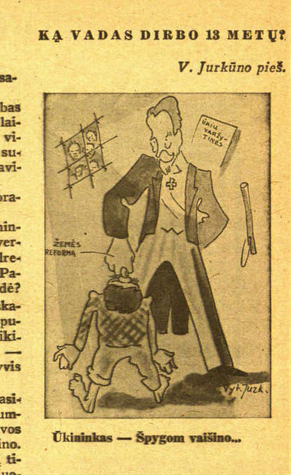 Vytautas Jurkūnas (caricature, Šluota, 1940)